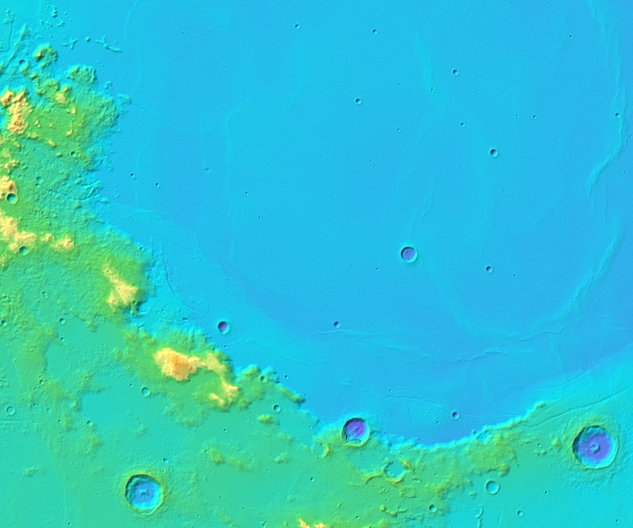 Montes Haemus on the Moon, along the southwestern edge of Mare Serenitatis. Topographic map (color shaded relief) based on Global Lunar DTM 100 m topographic model (GLD100), which is based on data acquired by Lunar Reconnaissance Orbiter. Size of the image is 600×500 km, north is up. The image has the same borders and resolution as a photomosaic Montes Haemus (LRO).png